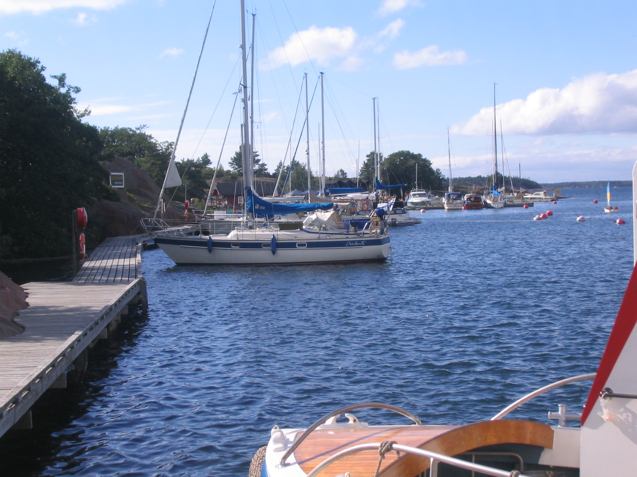 The yatch harbour on Rodhamn in the Archipelago of Aland, Finland.